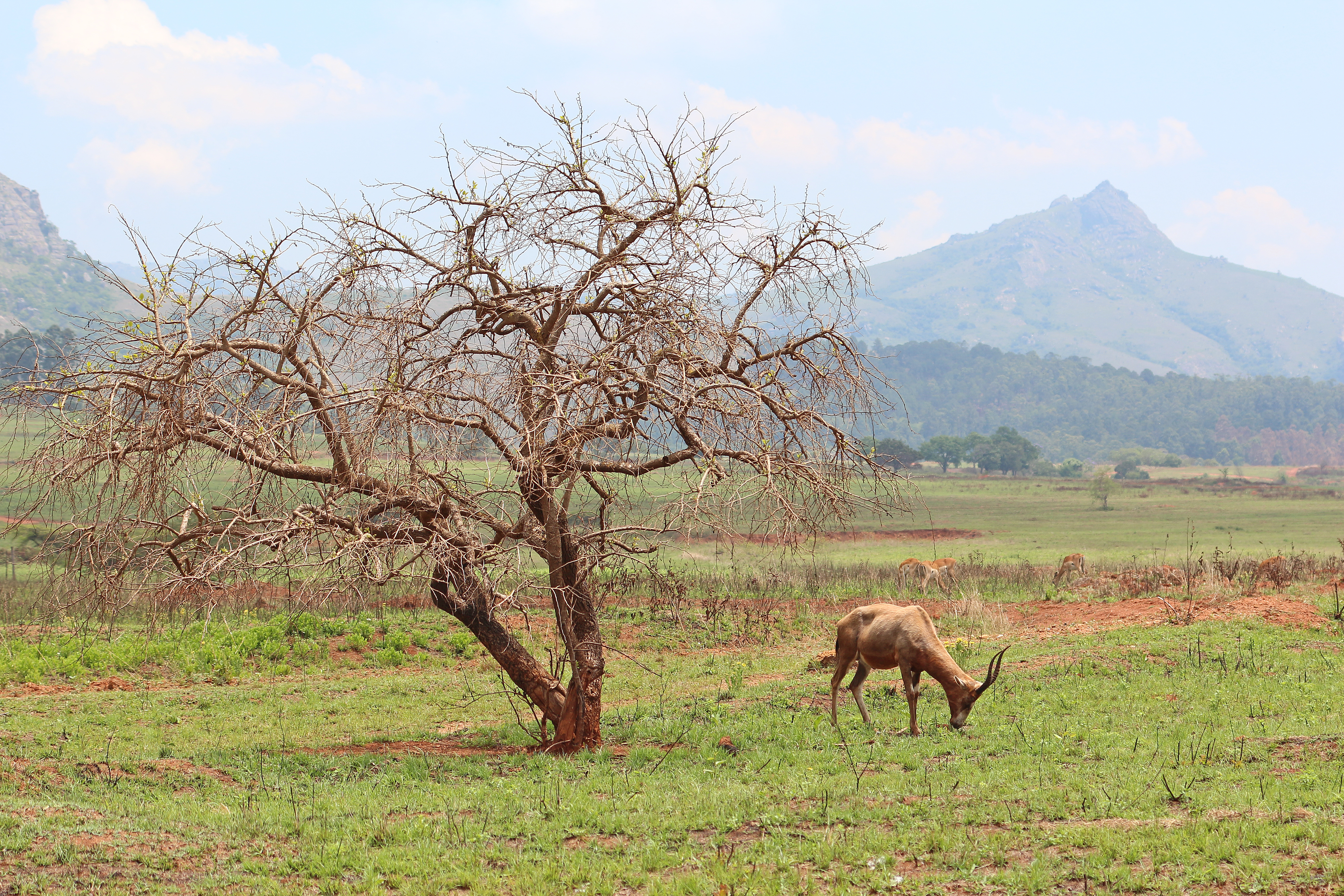 Impala (Aepyceros melampus) in the Mlilwane Wildlife Sanctuary, Swaziland